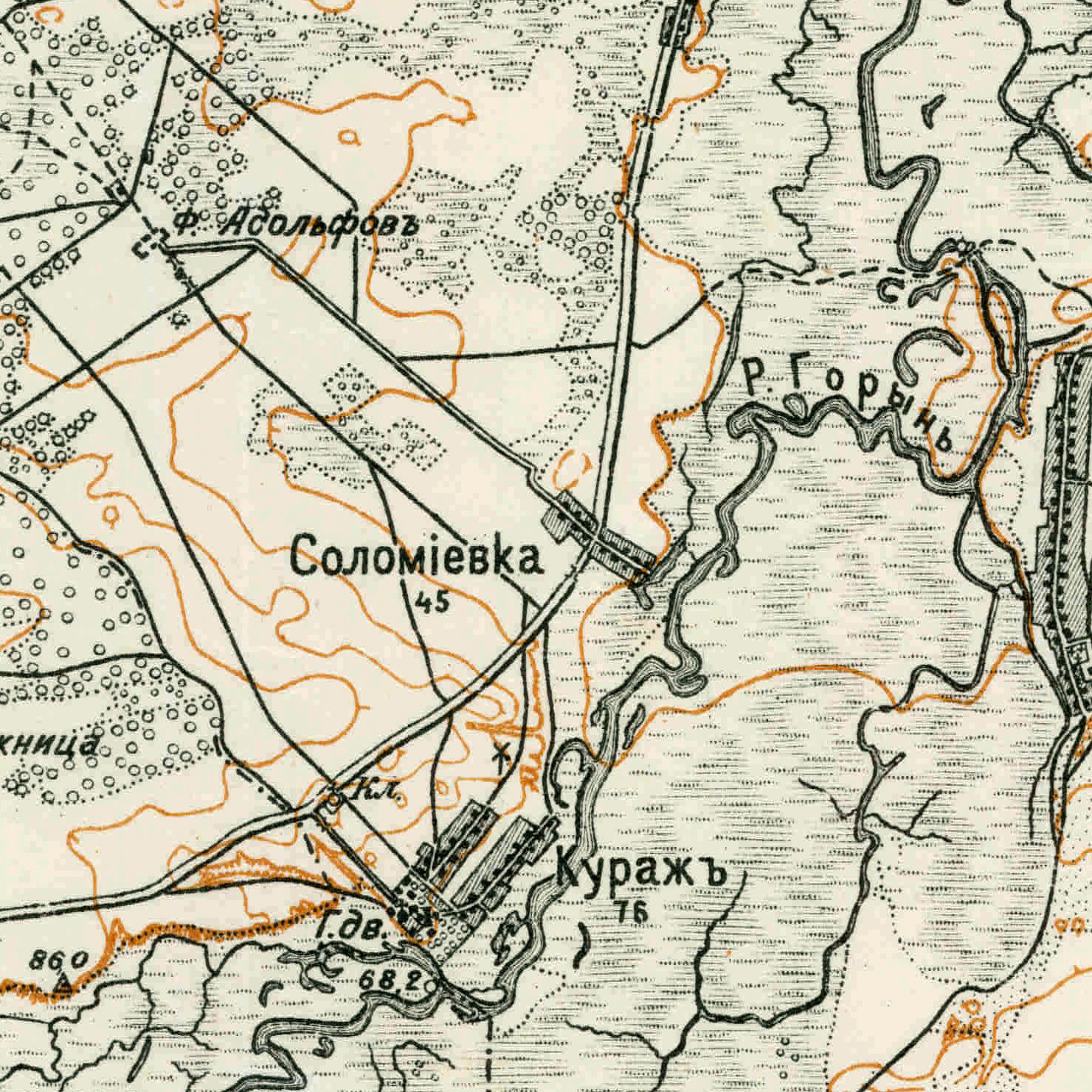 Solomiivka on the map "Новая Топографическая Карта Западной России", XXVI 21, 1915.